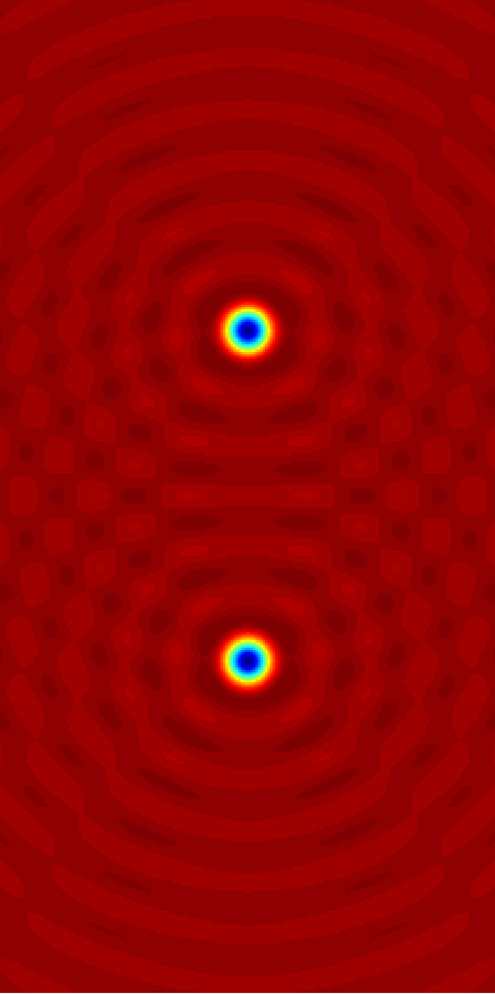 Illustration of Helmholtz equation.